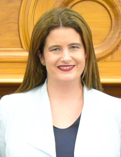 Nicola Willis, at the New Zealand Schools' Debating Championships Grand Final 2019, at Parliament Buildings, Wellington, on 27 May 2019.